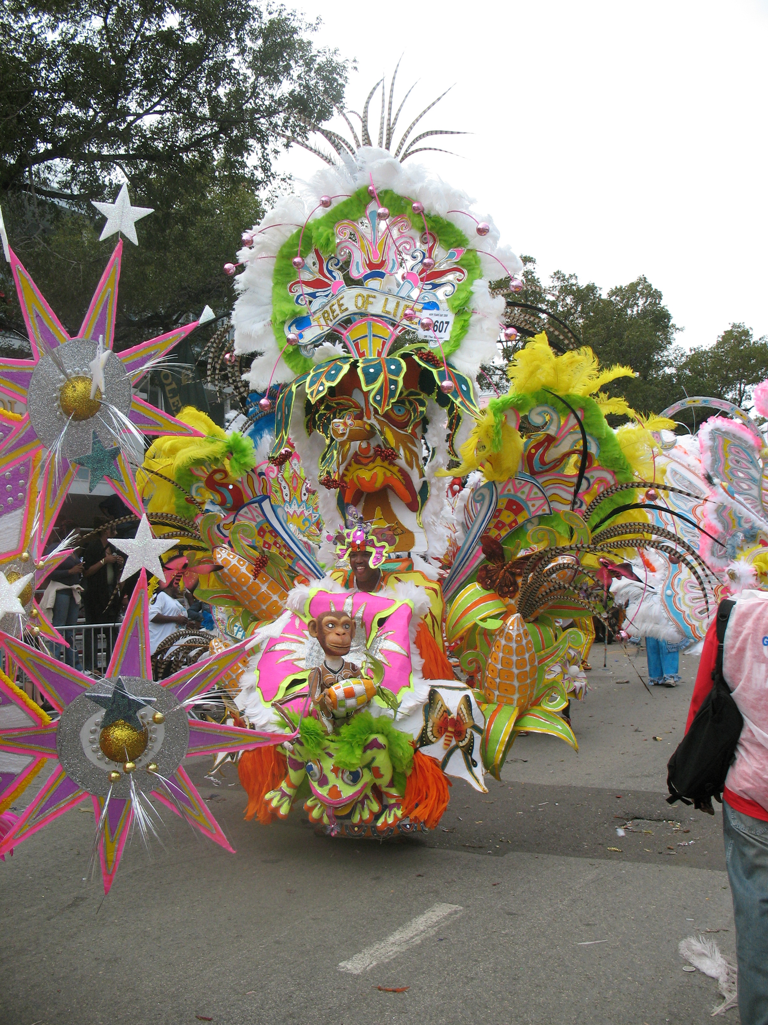 Junkanoo dancer costume from the Valley Boys Junkanoo group